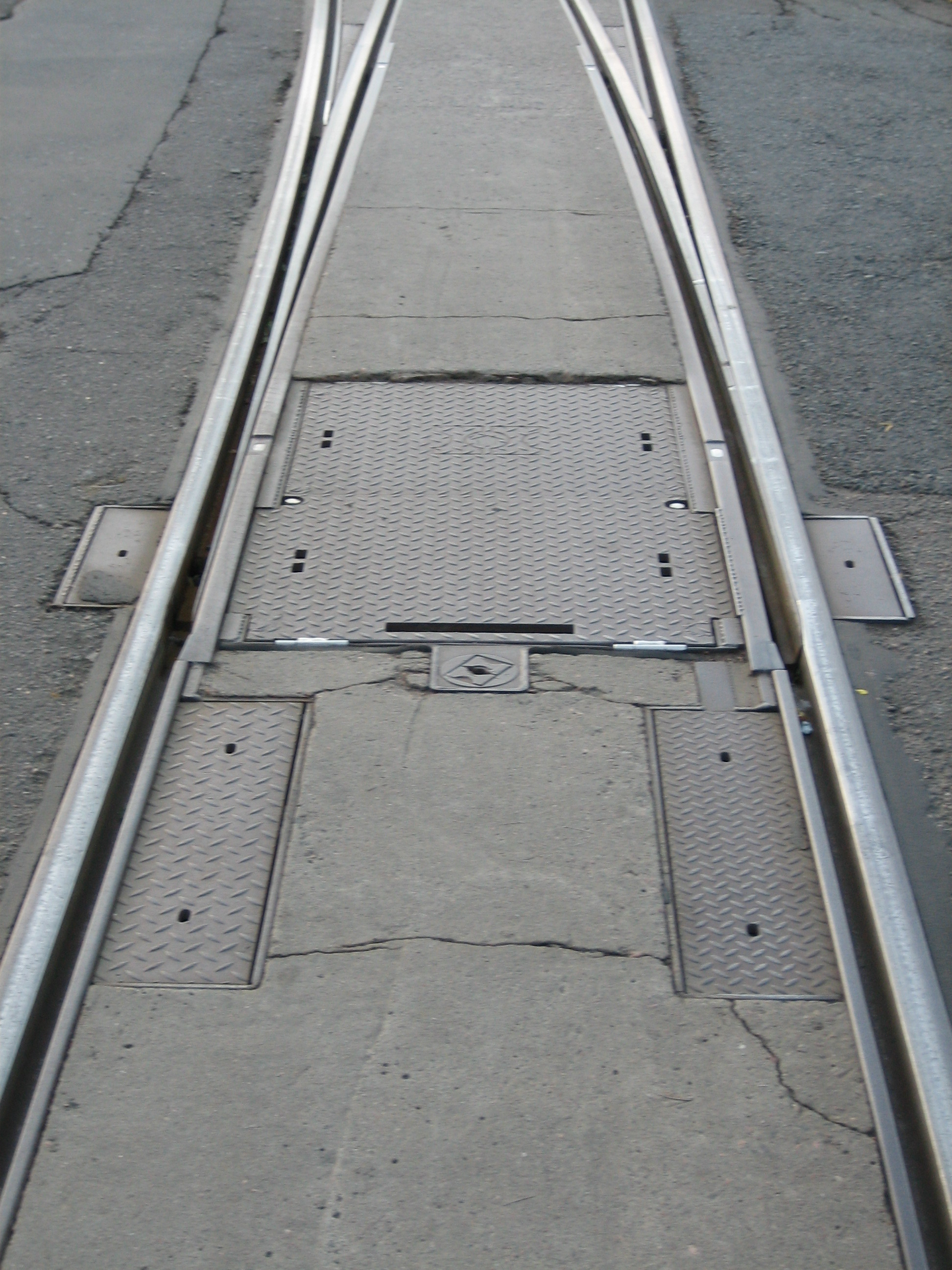 A tramway junction in Helsinki. A tramway junction can be radio-controlled by a tram driver. The junction locks in the position the driver wants, and can even give information on its position to driver. The junction might be operated manually in case of power failure. The junctions can be heated to avoid freezing in cold regions. The picture shows that the tracks are typically embedded to road. Therefore special brush cars or trucks regularly clear the groove from sand, leaves, snow, and litter.